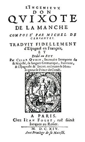 Title page of the first translation into French of "don Quixote de La Mancha" by Cervantes, 1614